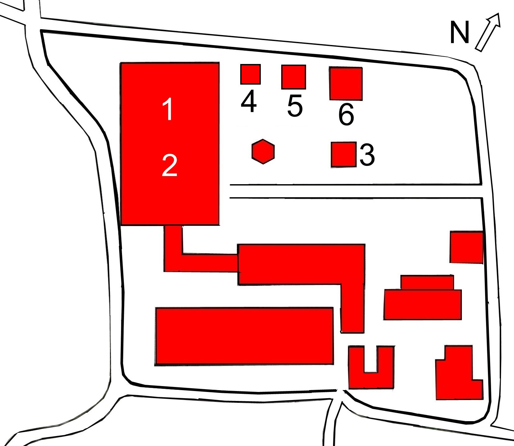 Layout of Kôon-ji (Saijô) Plan